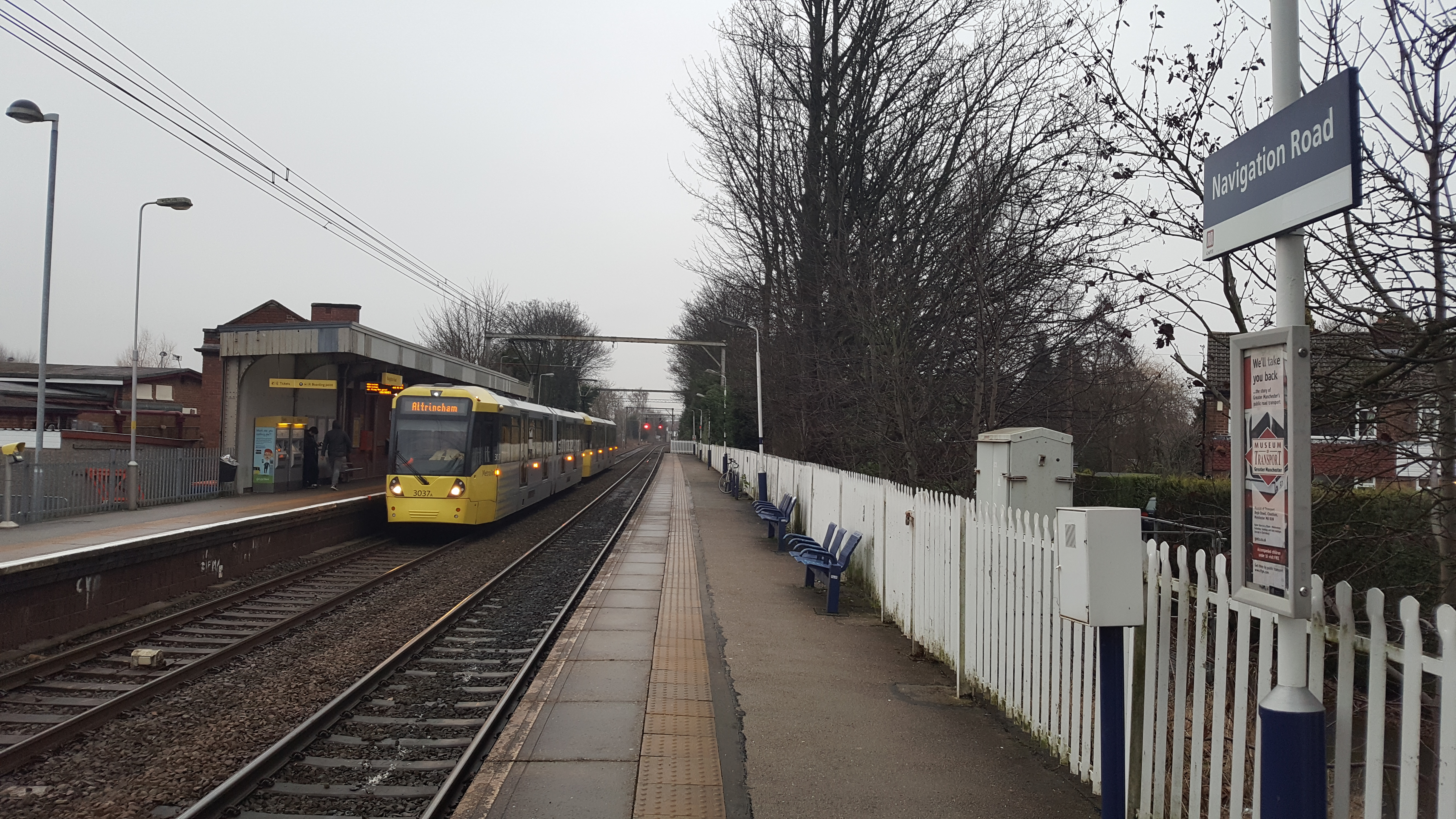 A tram at Navigation Road.